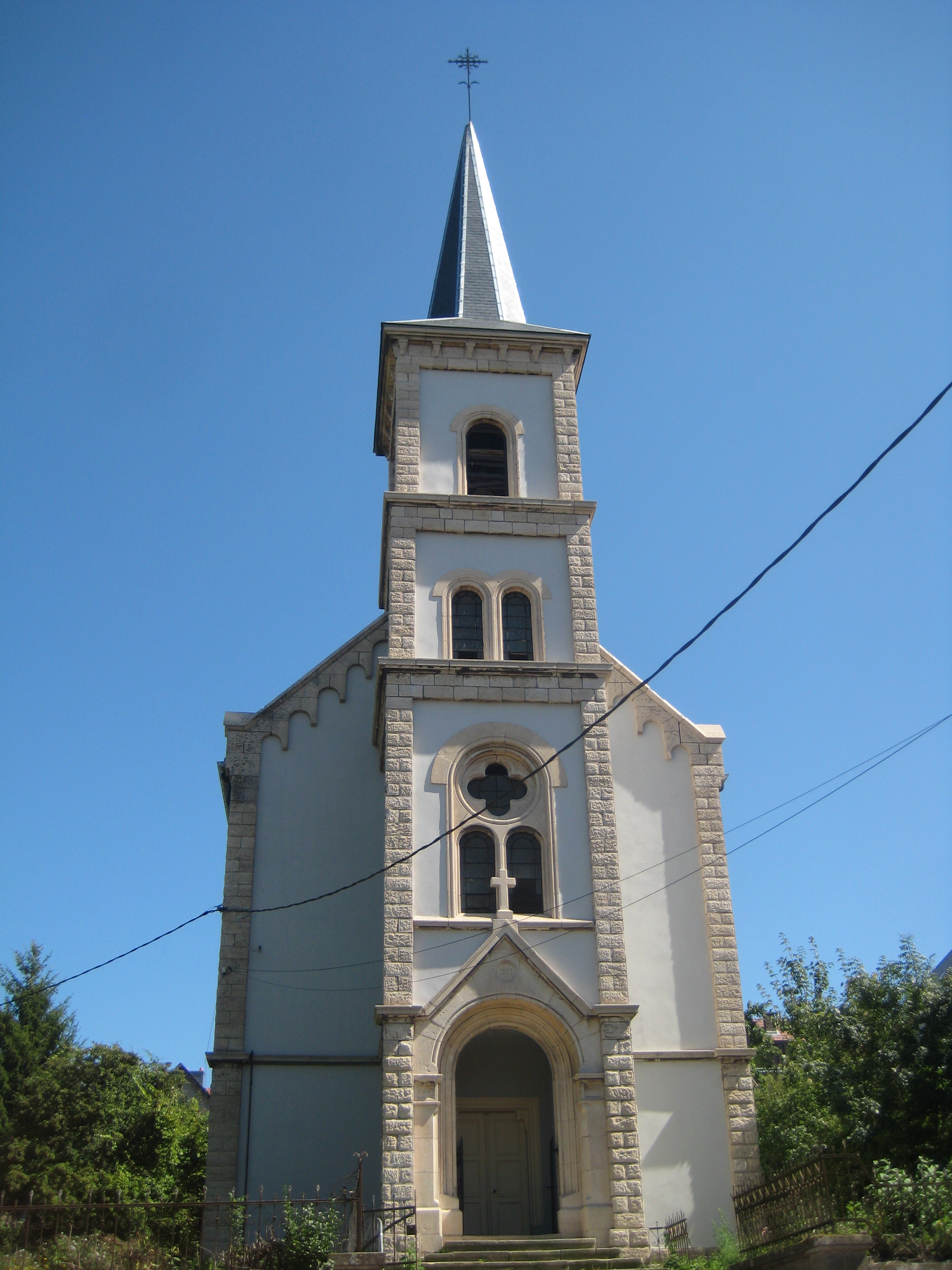 Description temple Audun Tiche temple Audun Tiche